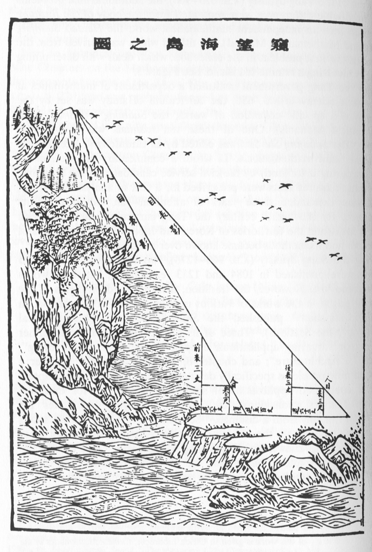 Sea Island survey diagram 窥望海岛之图, first written of by the Chinese mathematician Liu Hui during the Three Kingdoms era (220–280 CE).